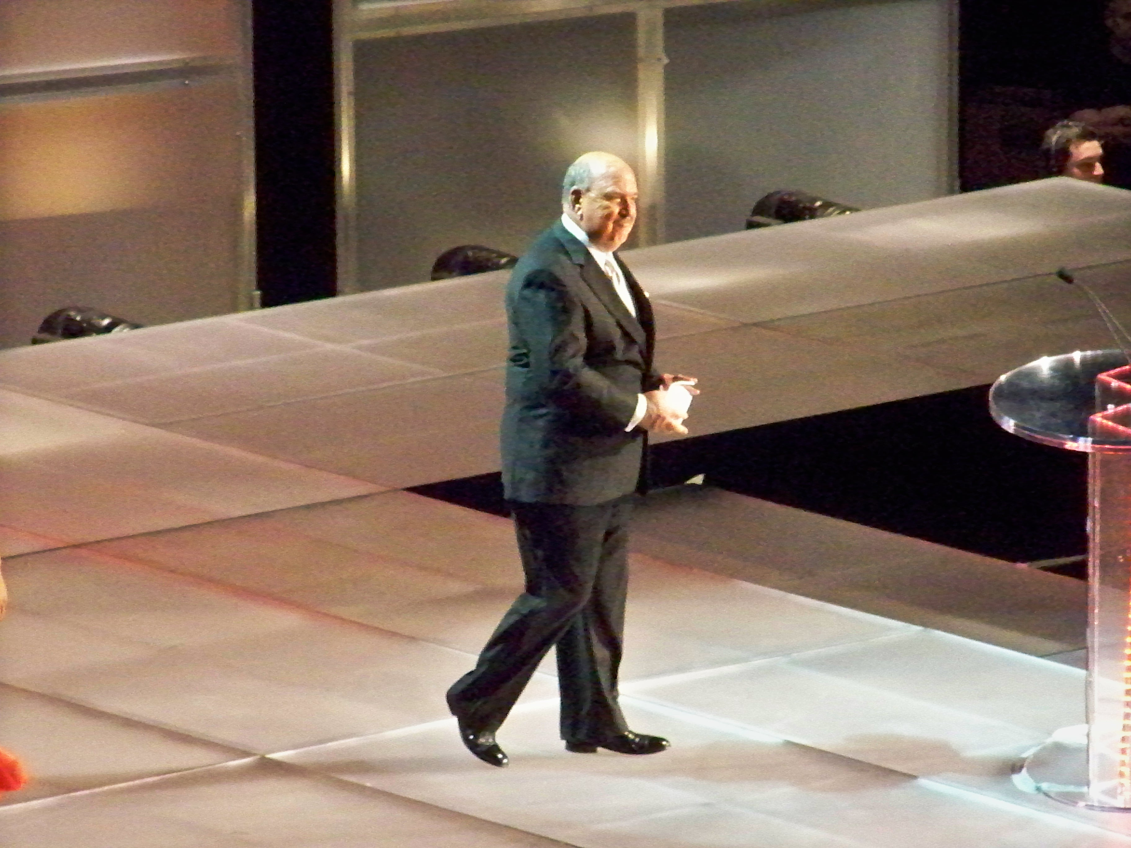 Gene in the Hall of Fame.